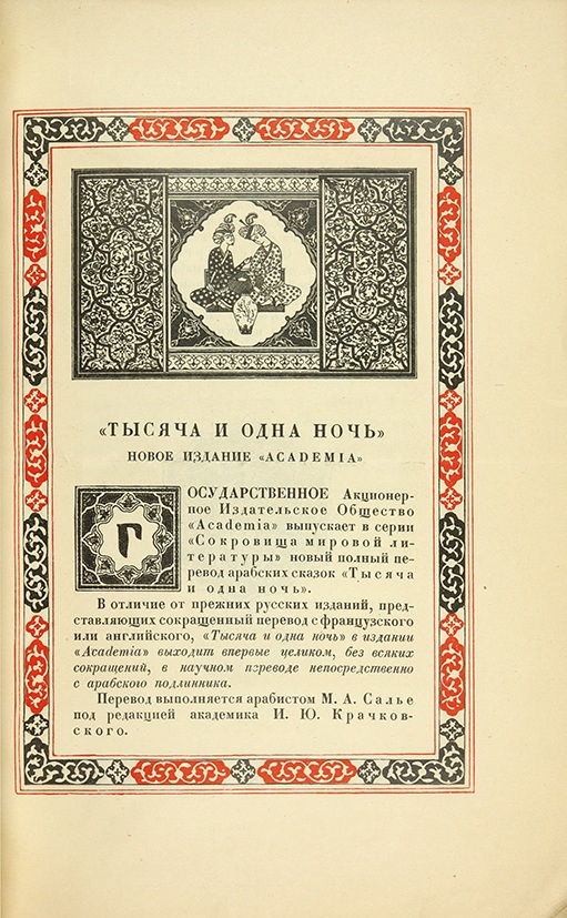 Nikolai Ushin - 1001 Nights, prospect page